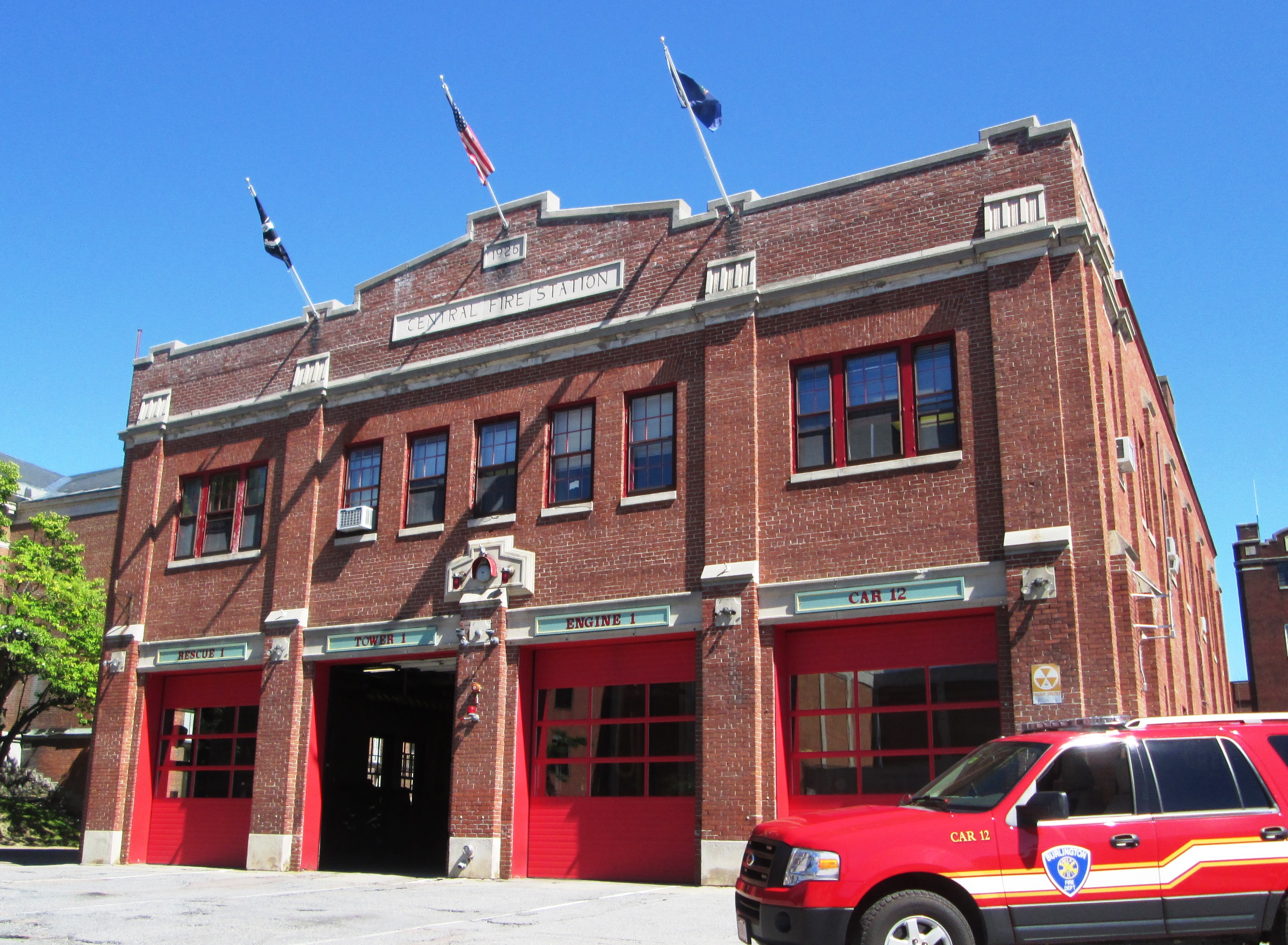 The Central Fire Station on S. Winooski Avenue in Burlington, Vermont was built in 1926.